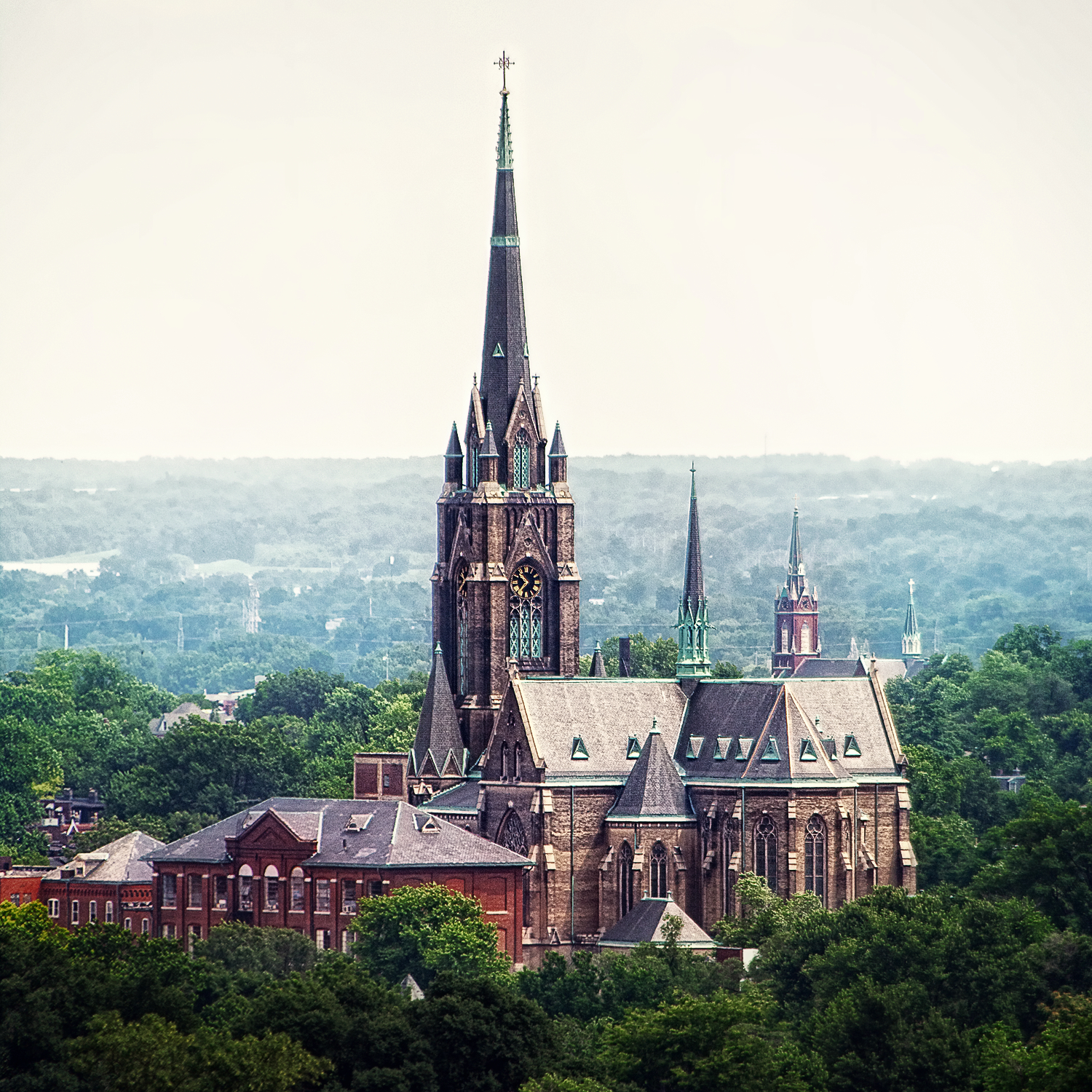 Saint Francis de Sales Church as seen from the Compton Water Tower in South Saint Louis. The church's spire reaches 300 feet.